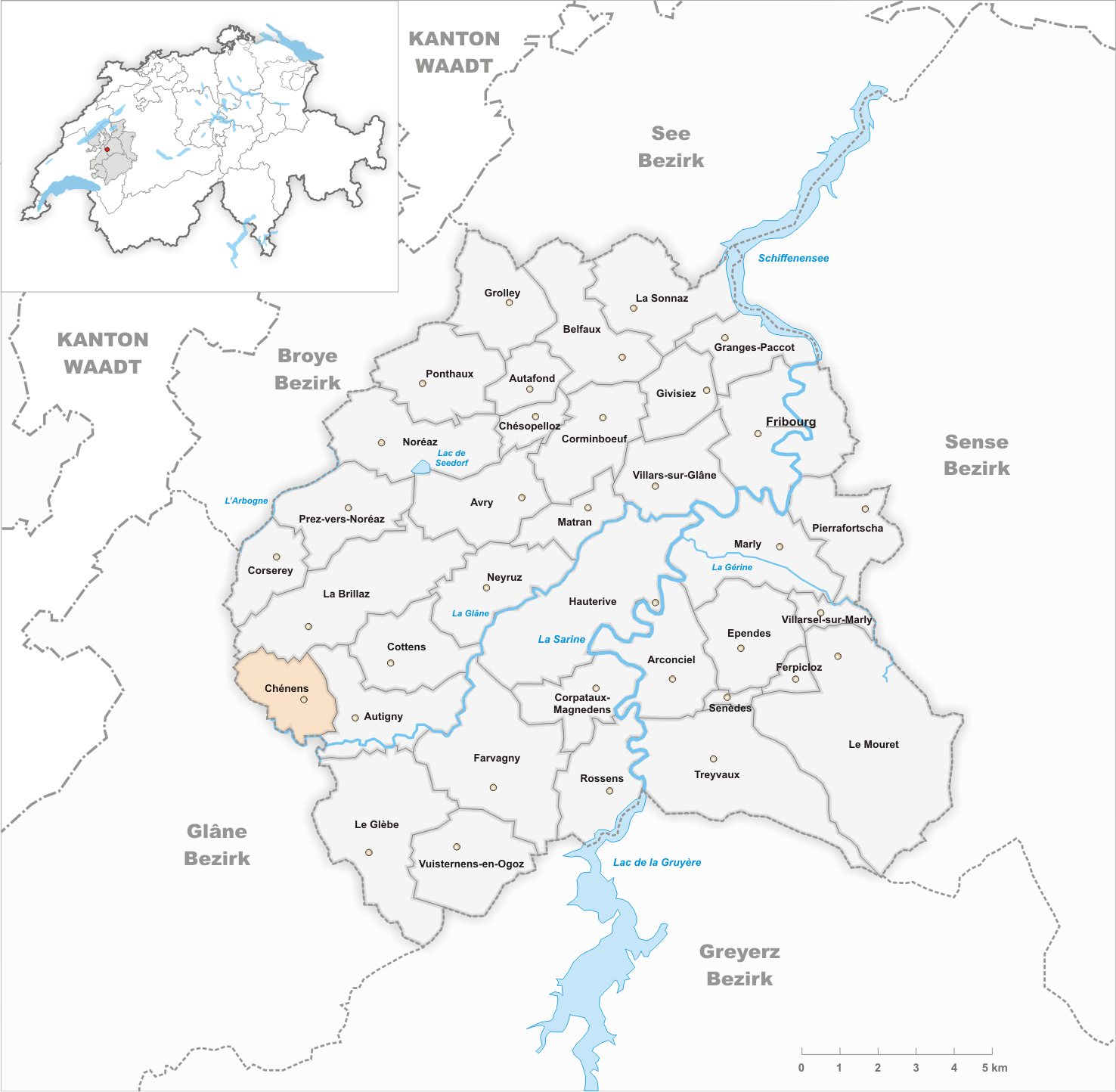 Municipality Chénens